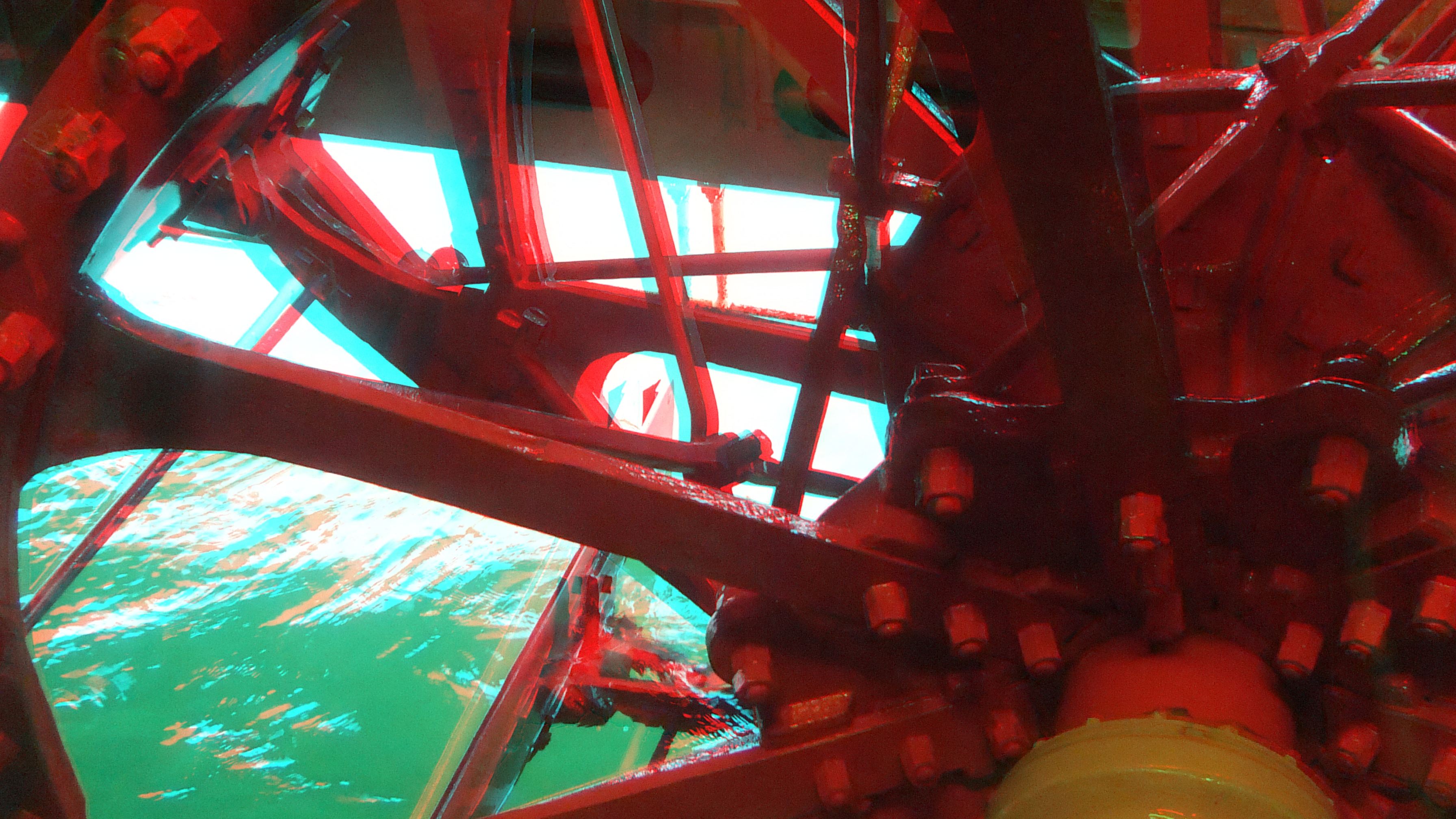 Paddlewheel of Lake Lucerne paddle steamer "Stadt Luzern". 3D anaglyph photo.